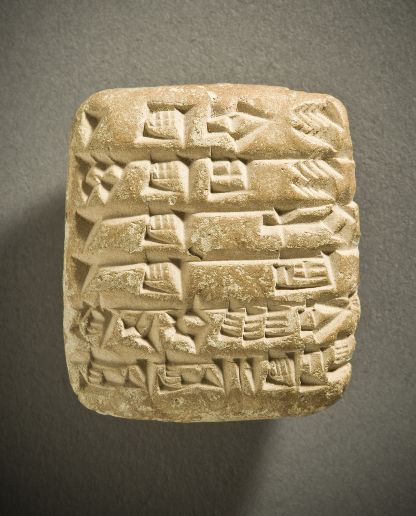 Mesopotamia, circa 2052 B.C. Tablets Clay Gift of Miss Carlotta Mabury (M.41.5.1b) Art of the Ancient Near East